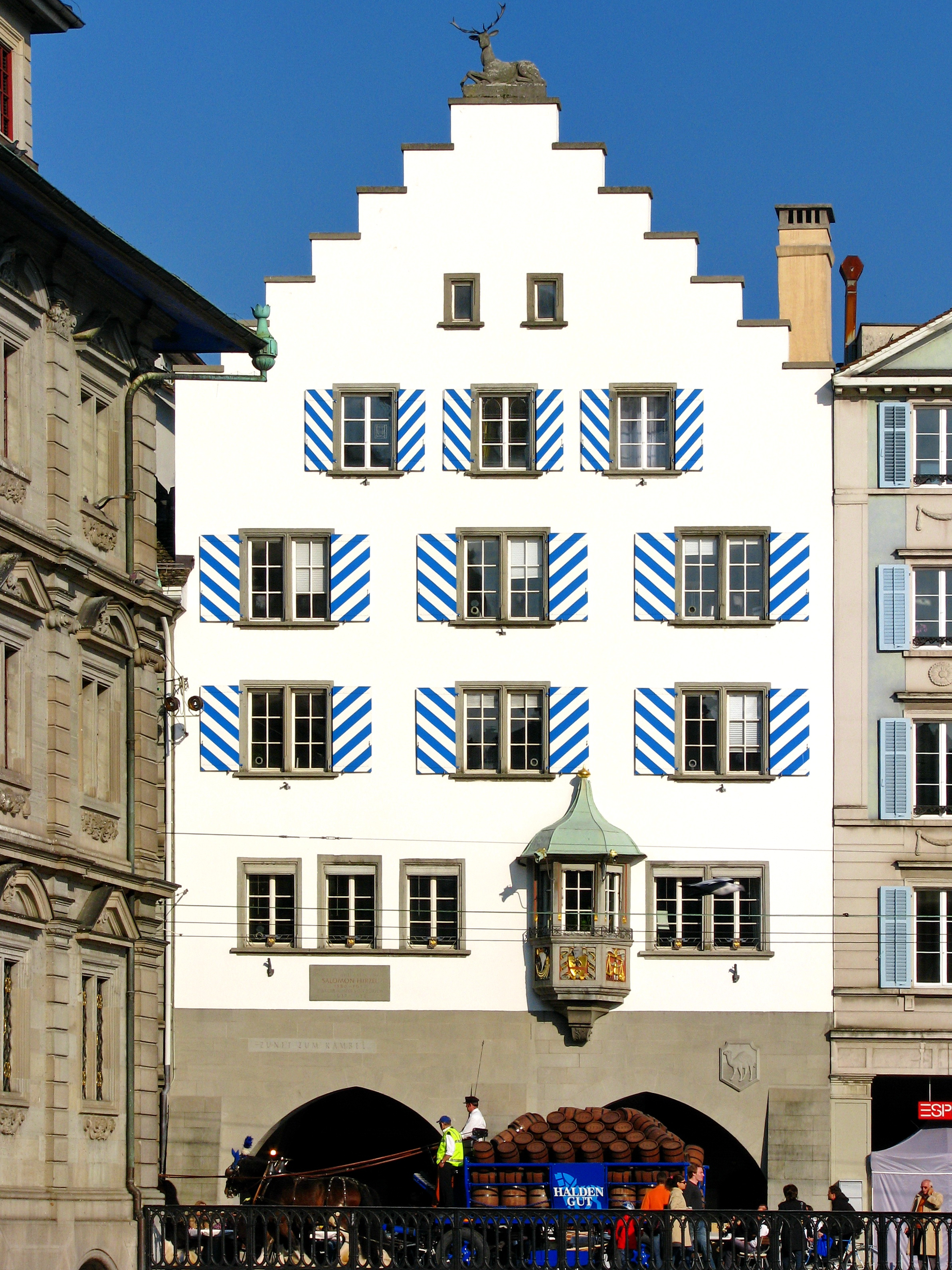 Zürich-Limmatquai : Guild house «zur Haue» of the Zunft zum Kämbel, former home of Salamon Hirzel (Mayor of Zürich) (* 1580; † 1652), Town hall to the left side.